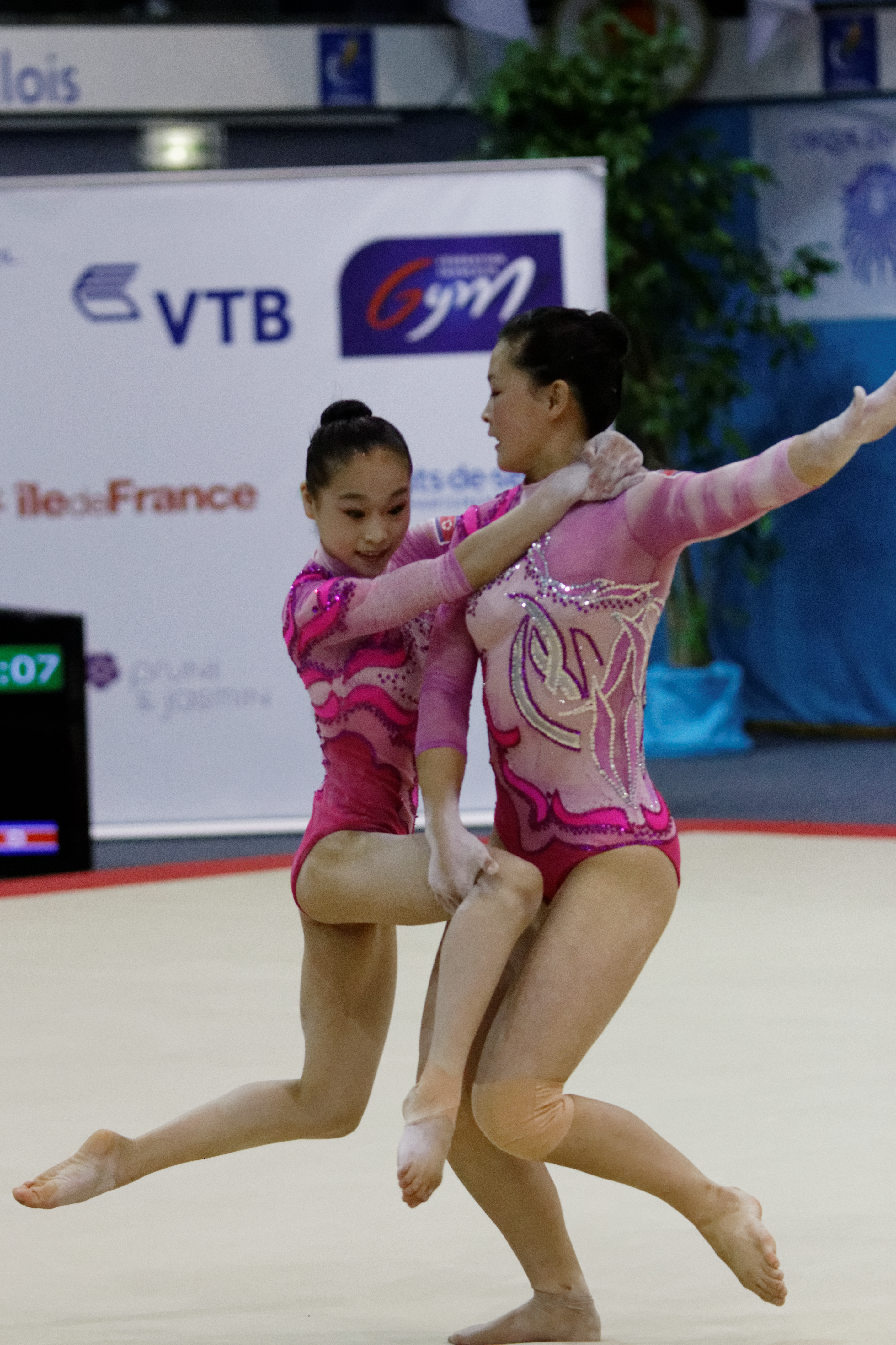 2014 Acrobatic Gymnastics World Championships, 10th-12 July, Levallois-Perret, France. Finals : women pair. North Korea.